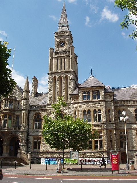 Ealing Town Hall, New Broadway. Opened in 1889, designed in the gothic style by Charles Jones. For a description of this area see Bob Speel's page "A Cultural Walk along Ealing Broadway"